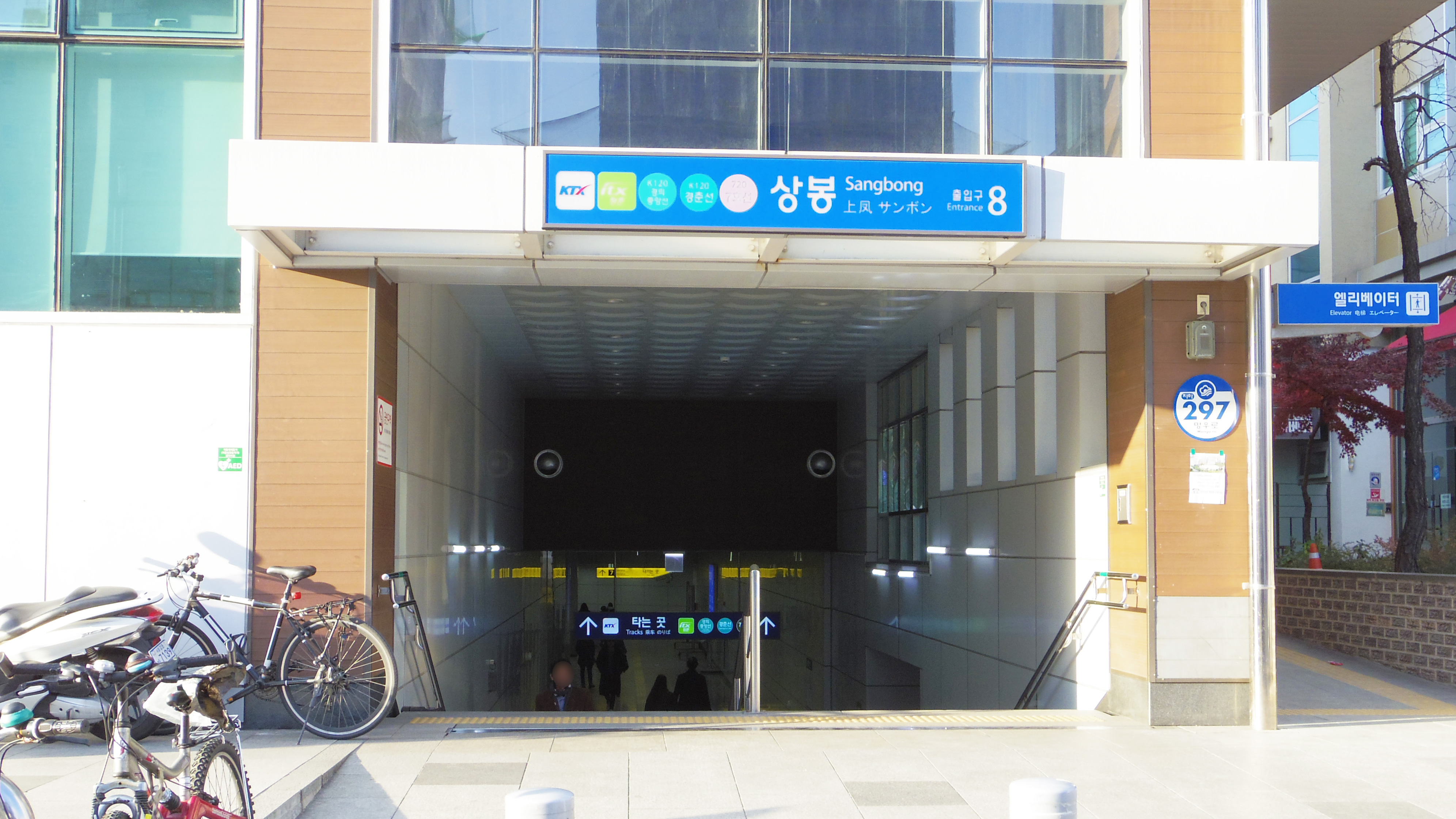 The no.8 entrance to Sangbong Station on Gyeongui-Jungang Line, Gyeongchun Line, Seoul Subway Line 7 in Jungnang-gu, Seoul, Republic of Korea(South Korea)